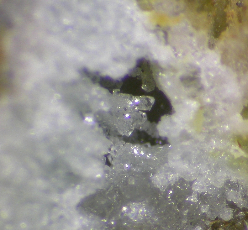 Hidalgoite Locality: Sauberg Mine, Ehrenfriedersdorf, Erzgebirge, Saxony, Germany Field of view 3 mm. Specimen and photo Leon Hupperichs.